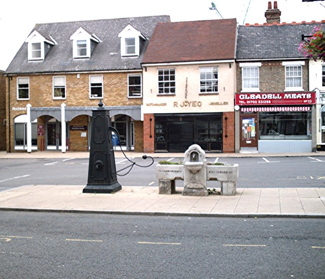 Rochford, Pump and horse trough - Market square, Rochford